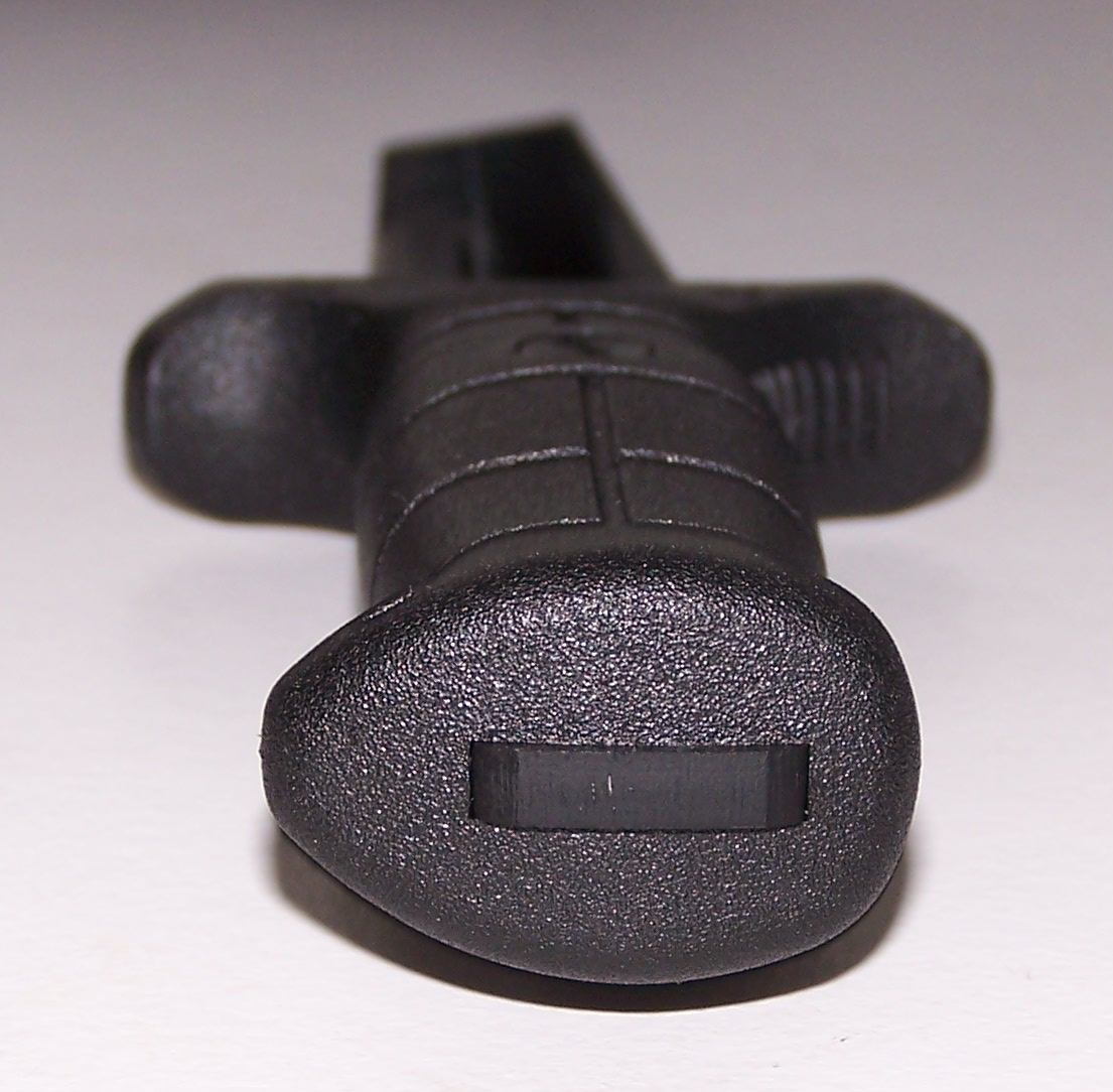 Own work Glas breaker in the knop of the KM2000